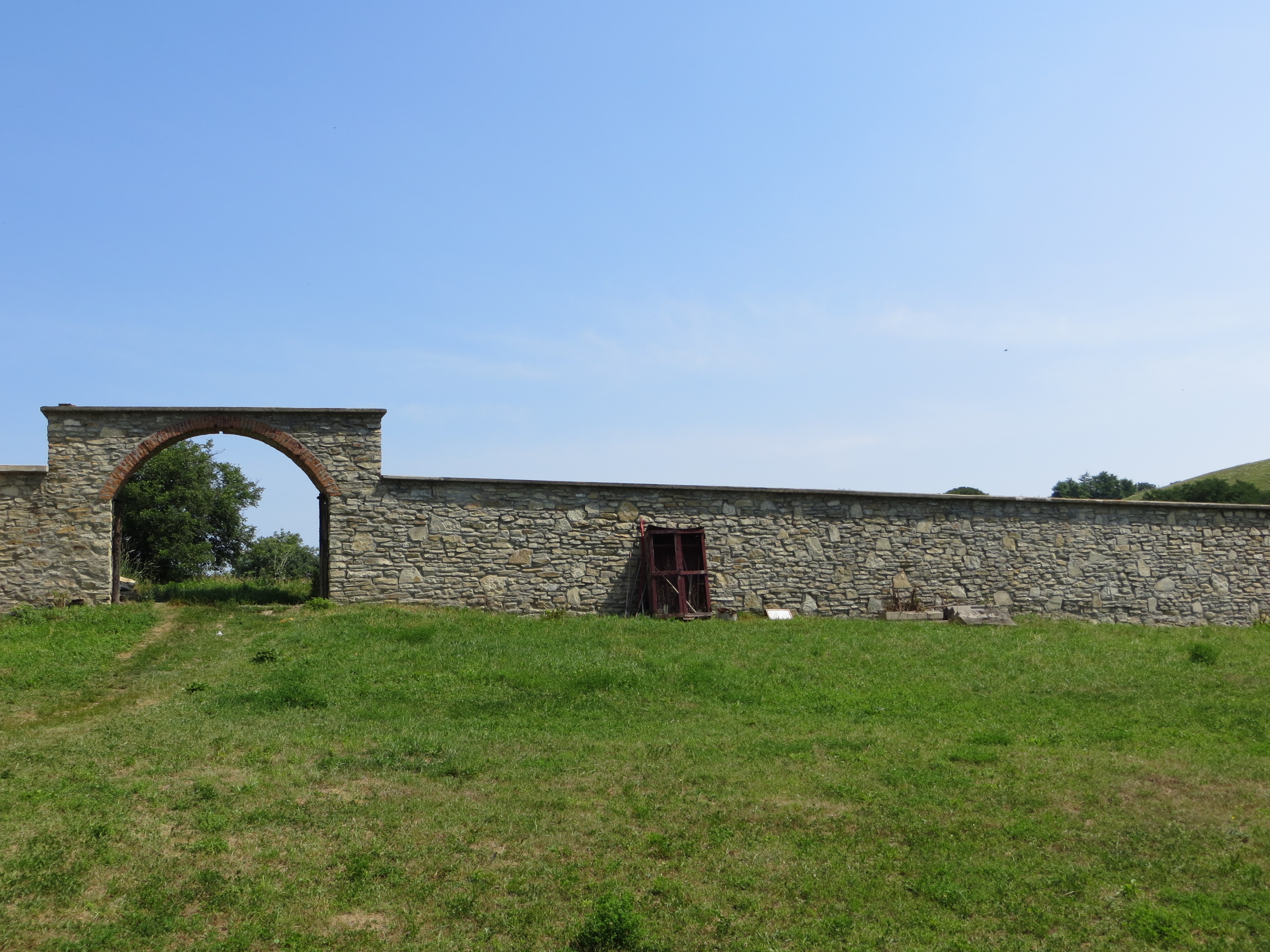 Teodoreni Monastery in Burdujeni, Suceava - wall of enclosure.